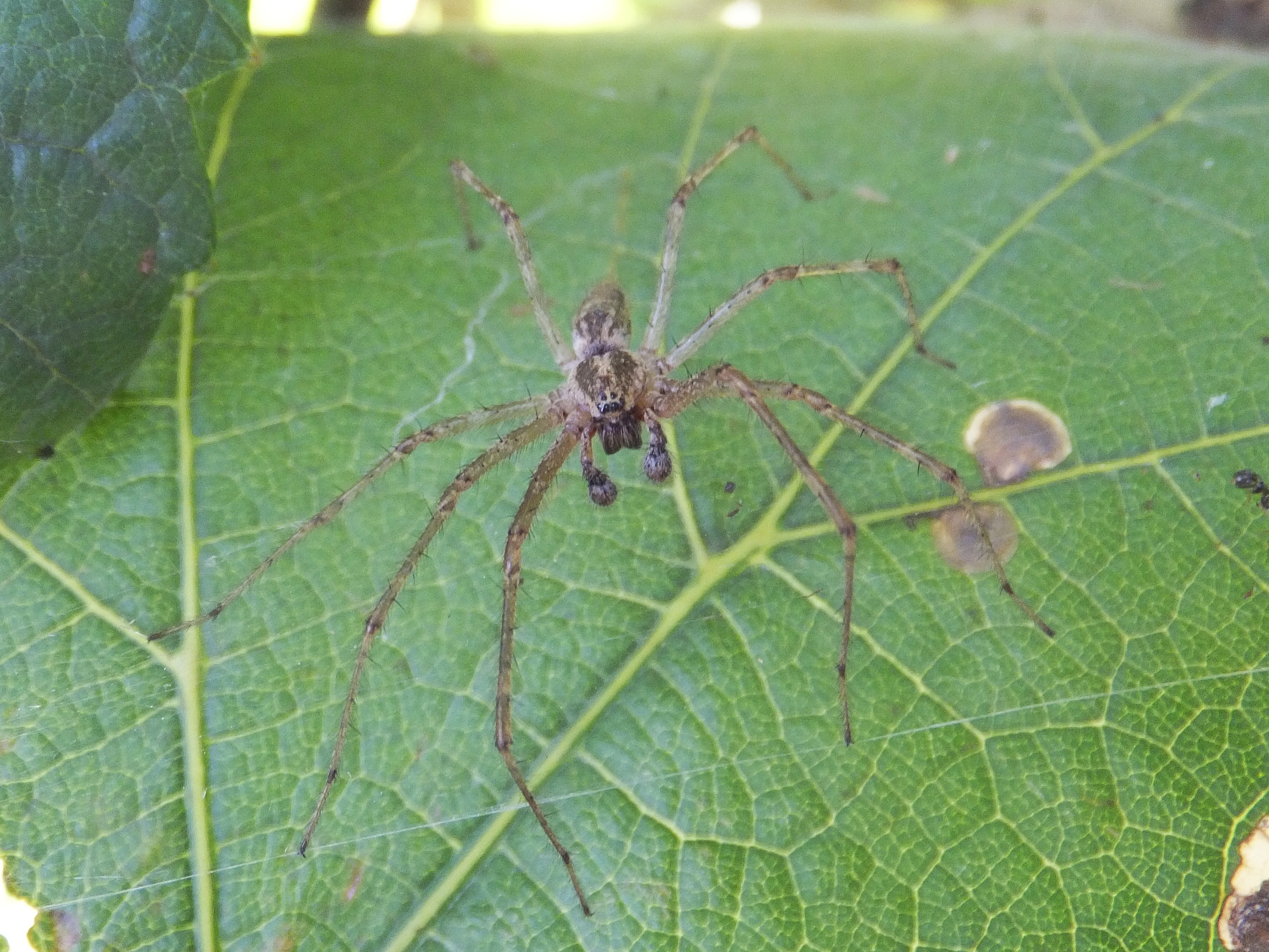 Spider of the species Allagelena gracilens on a vine leaf in Piazzo (Segonzano, Italy)